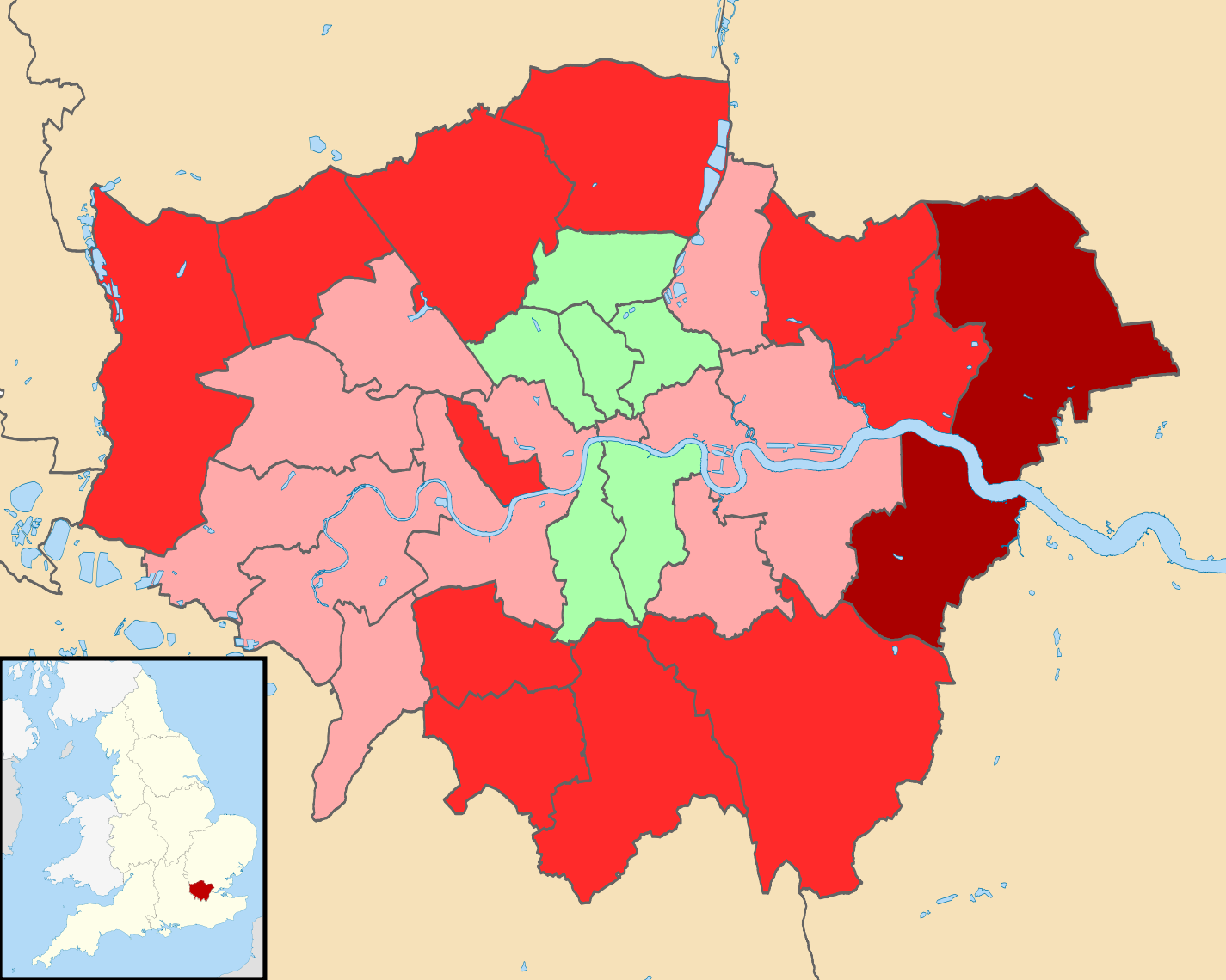 Map of Greater London, UK with districts shown. Equirectangular map projection on WGS 84 datum, with N/S stretched 160% Geographic limits: *West: 0.57W *East: 0.37E *North: 51.72N *South: 51.25N